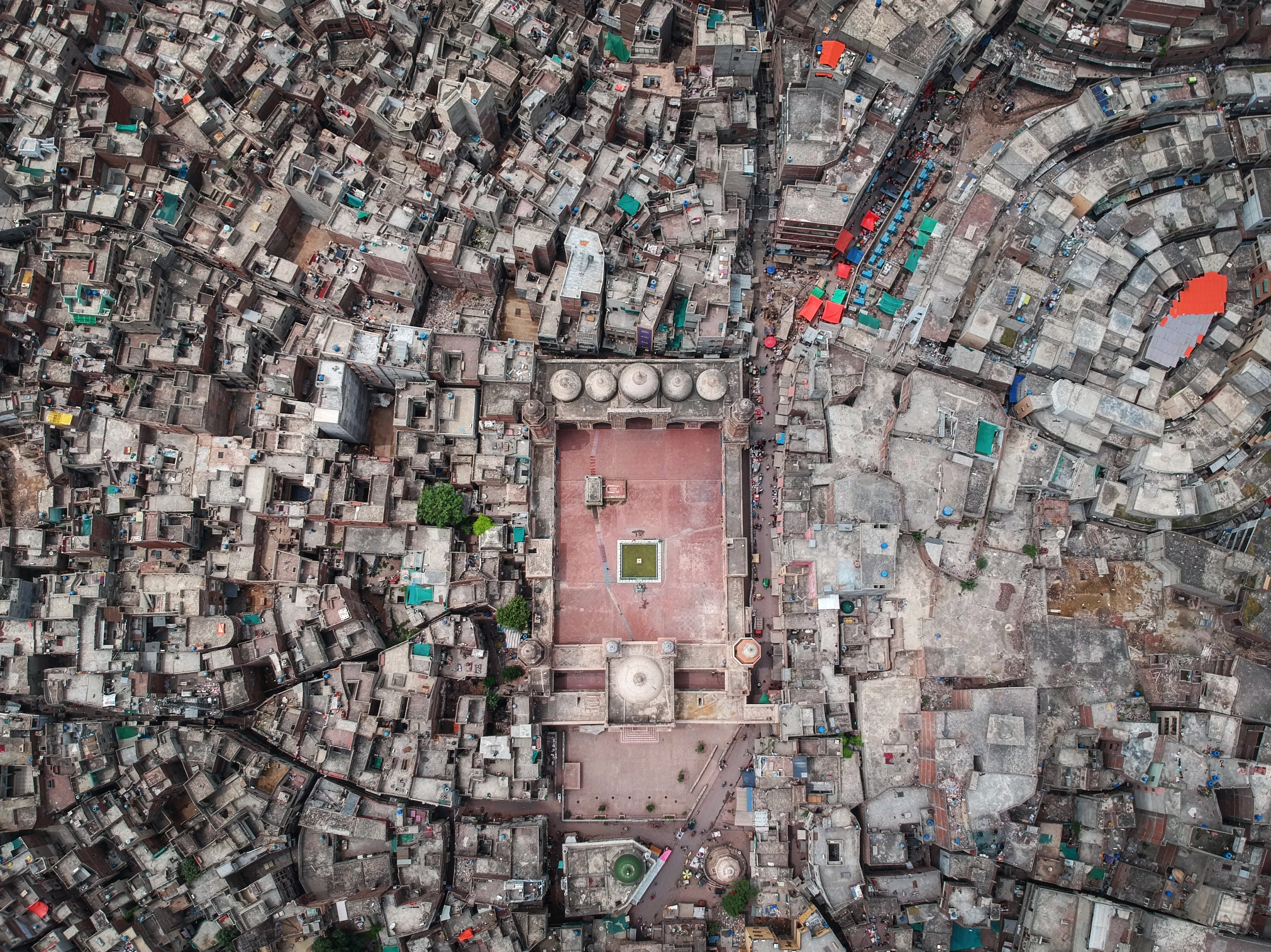 Wazir Khan Mosque This is a photo of a monument in Pakistan identified as the PB-100